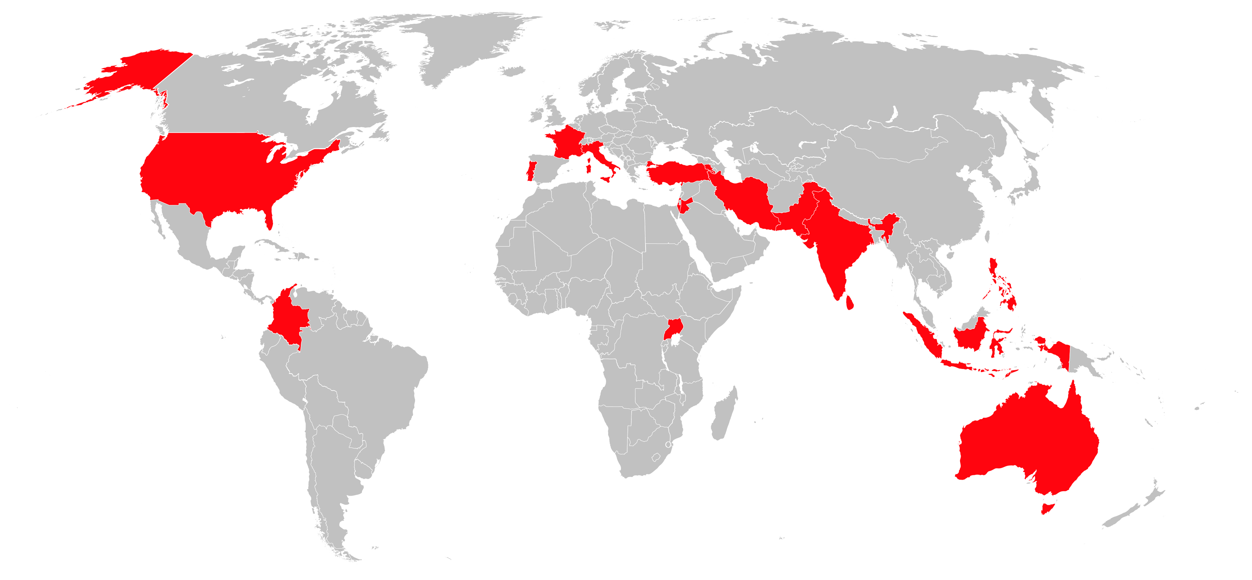 Countries visited by pope Paul VI